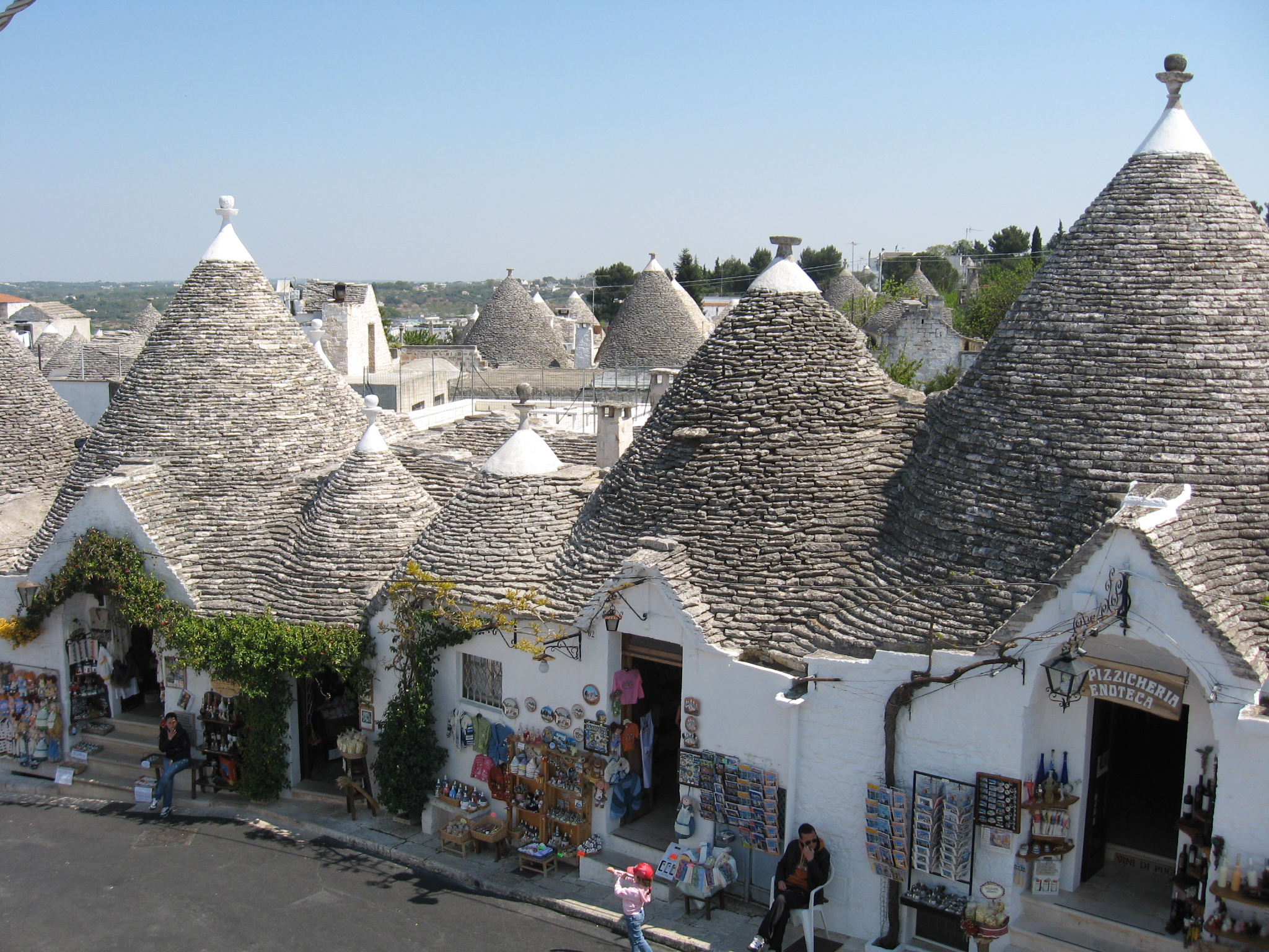 Rione Monti